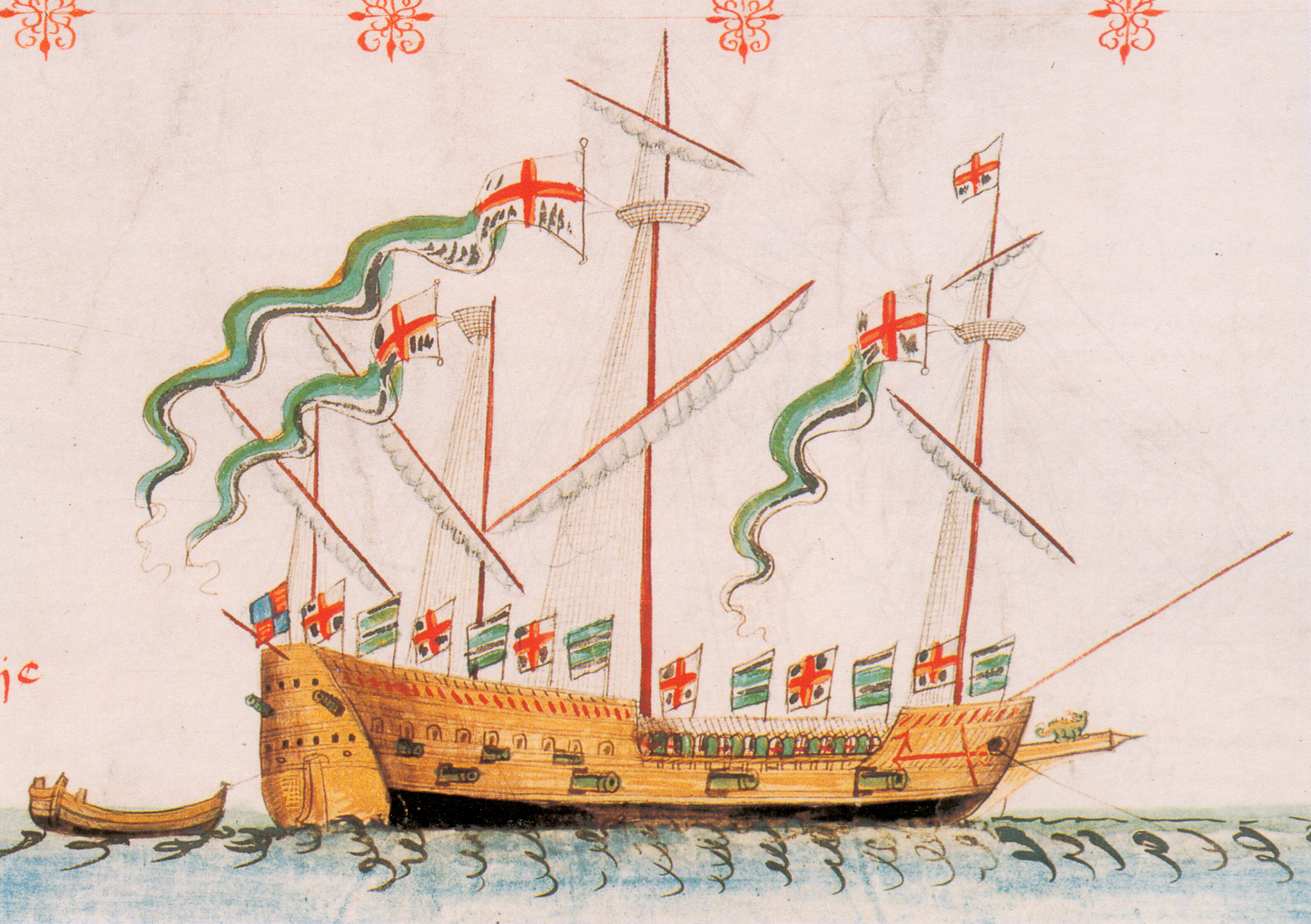 Illustration of the galleass Salamander. Notification about possible deletion Cathsuth (talk) 16:17, 9 February 2017 (UTC)